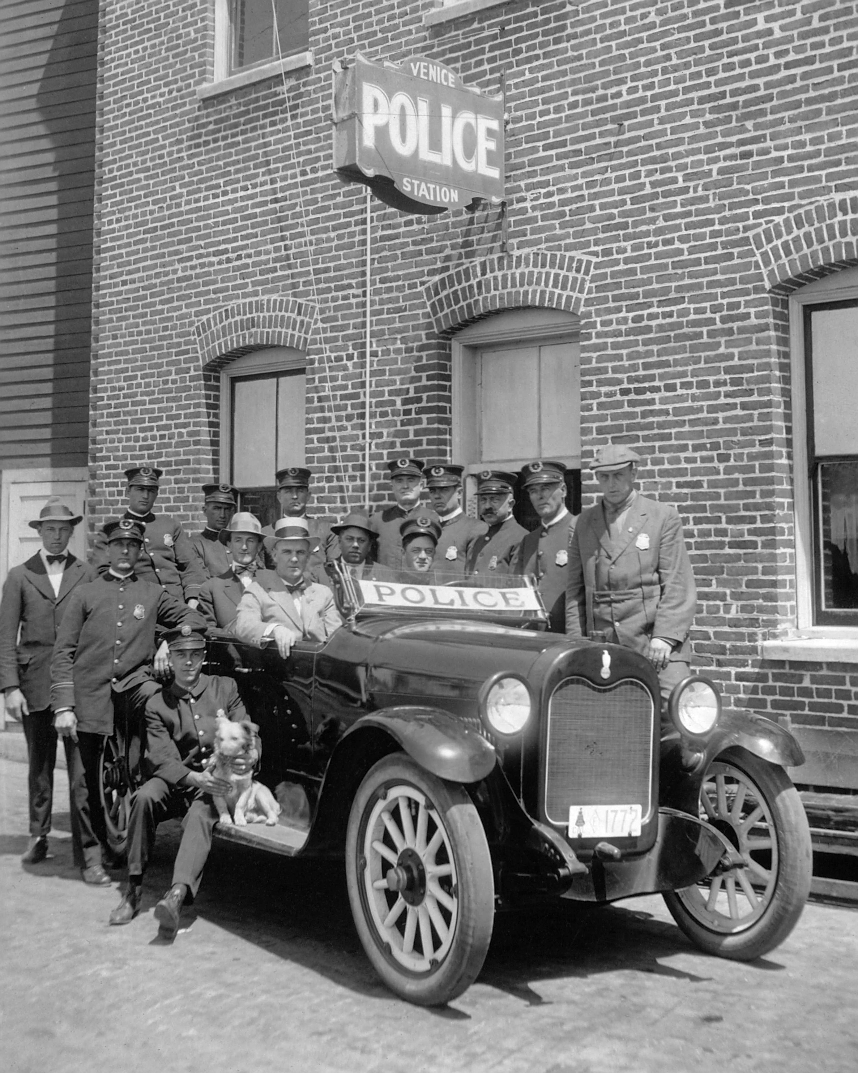 "Fifteen uniformed policemen gather around a police car adjacent to the Venice Police Station, ca.1920" Los Angeles, California.